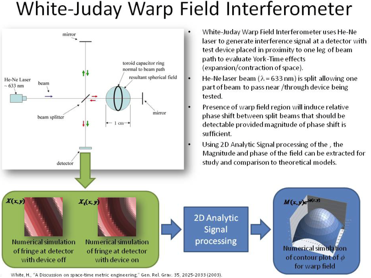 White-Juday Warp Field interferometer process description